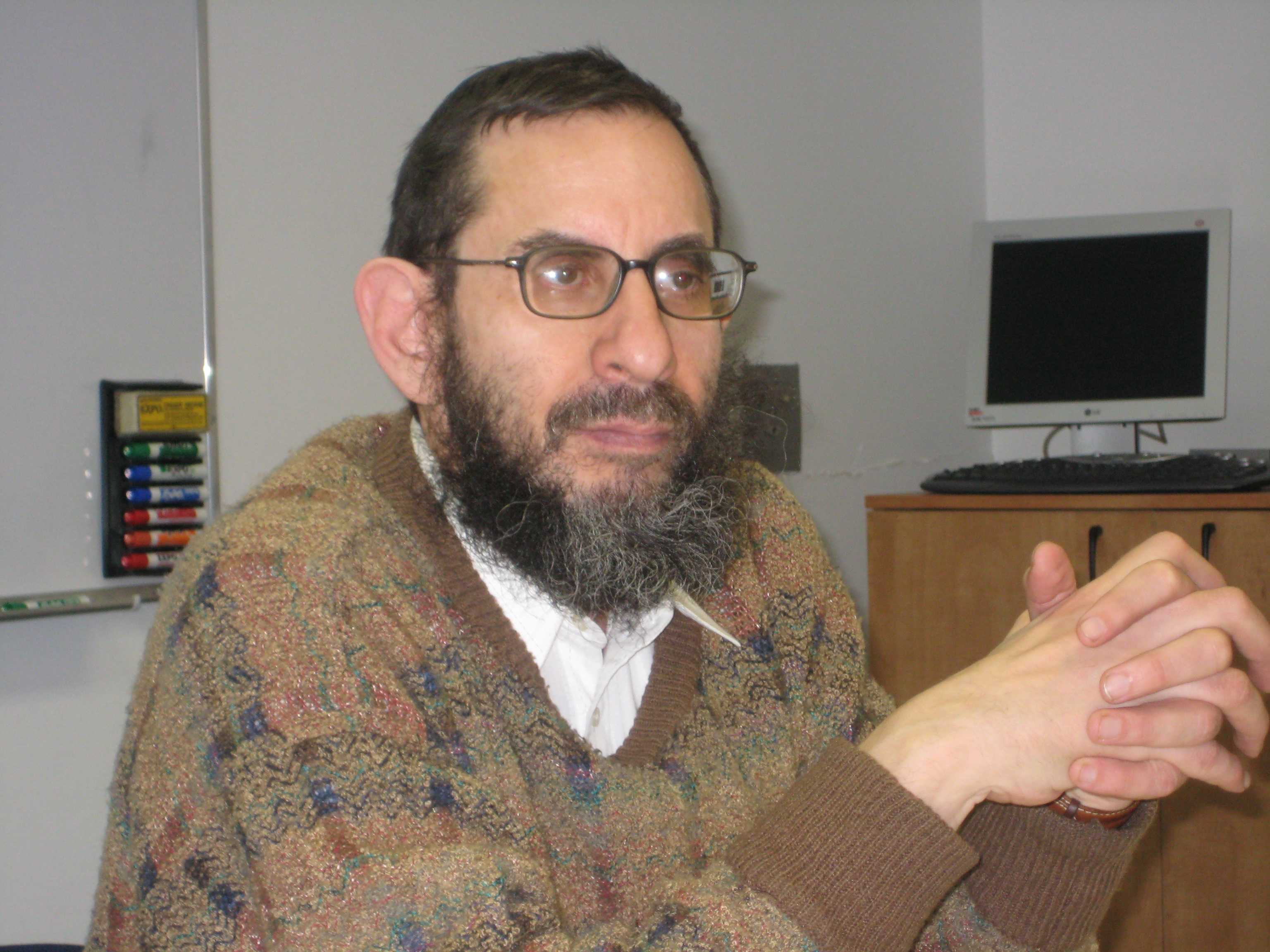 Received from Rabbi Jeffrey Saks of ATID